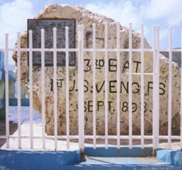 Historical Rock in the town of Guanica, Puerto Rico